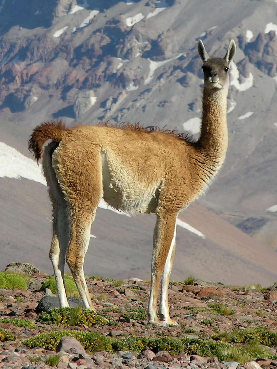 Guanaco de San Carlos